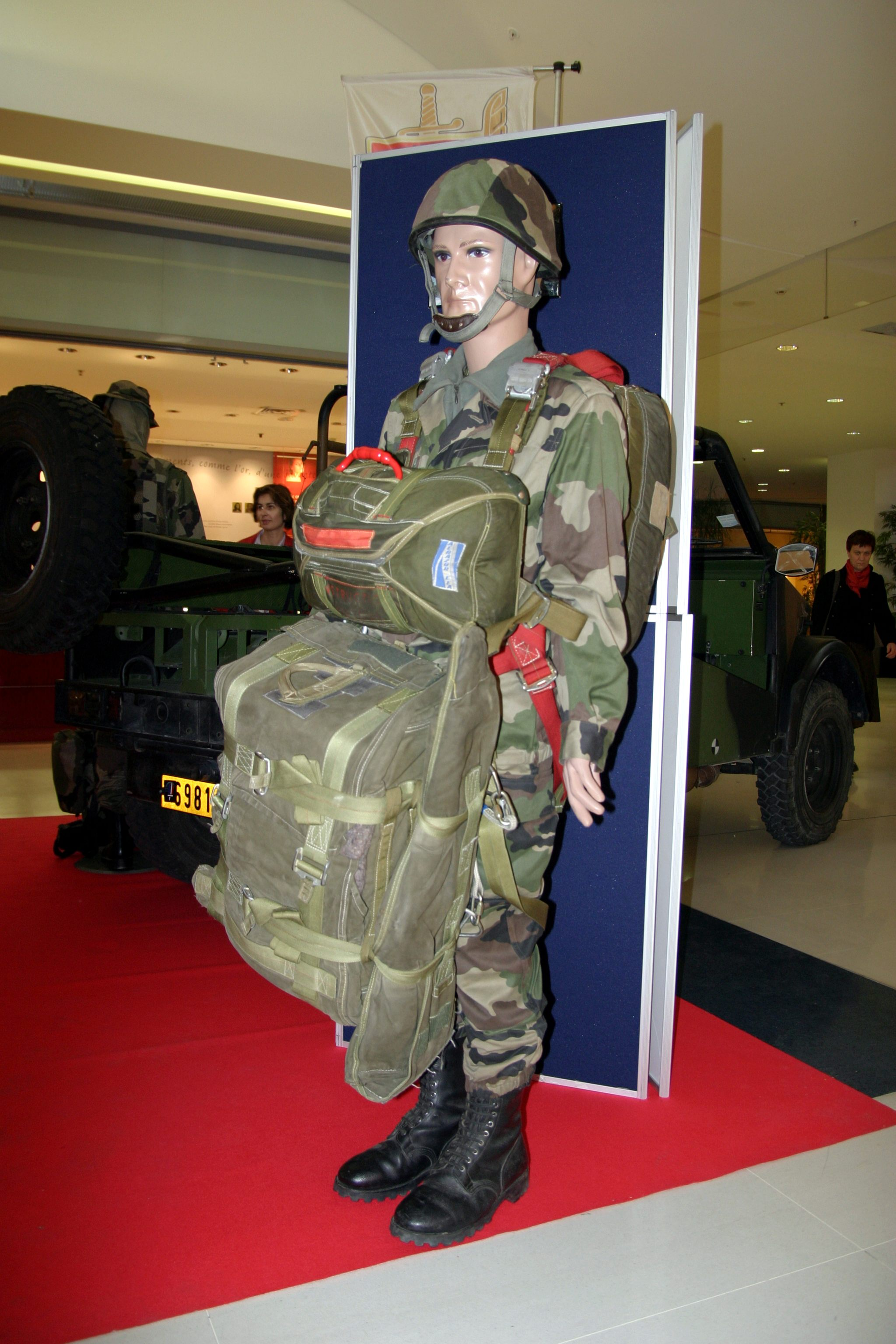 Marine Infantry parachutist uniform.